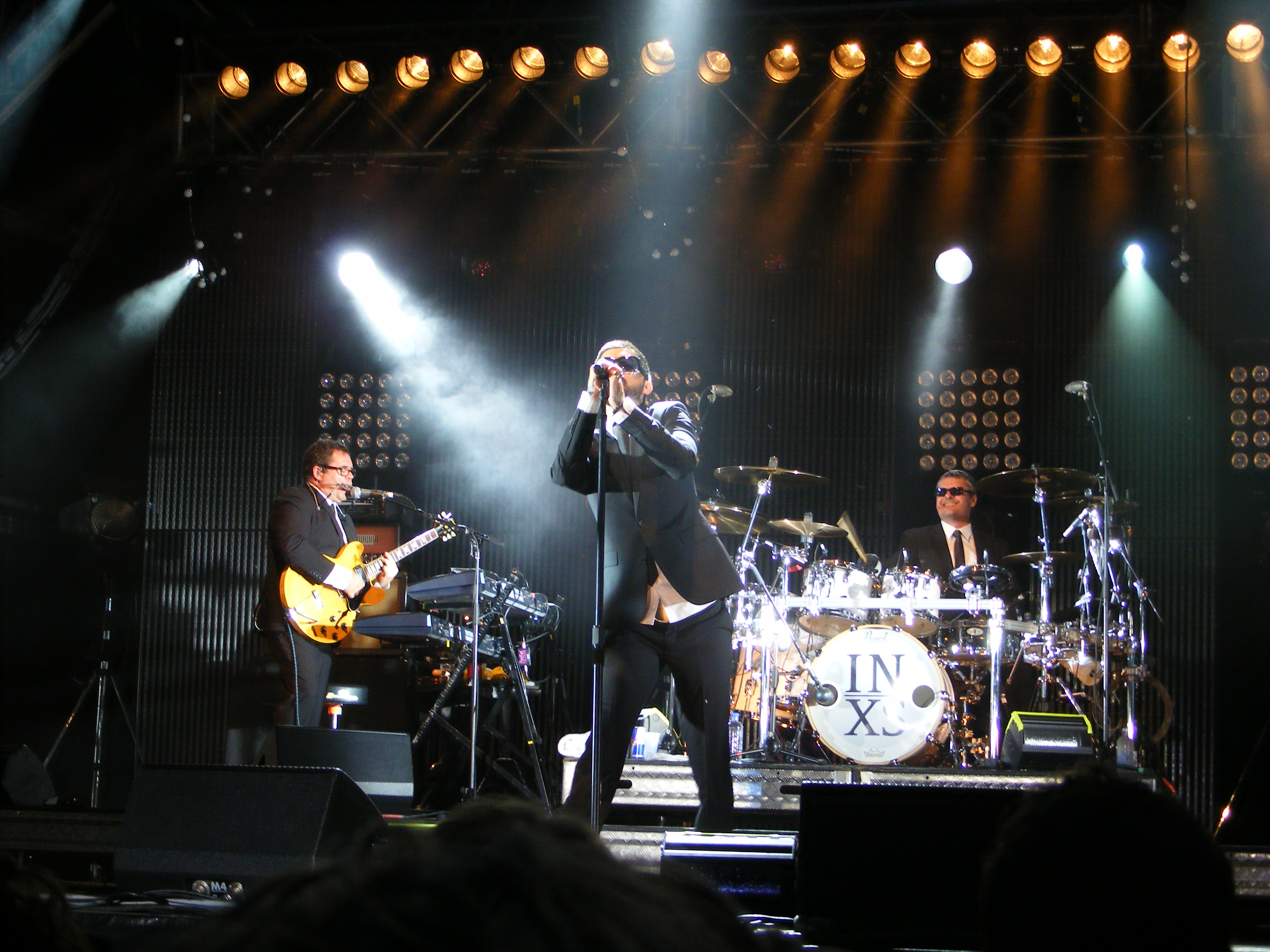 INXS in 2011